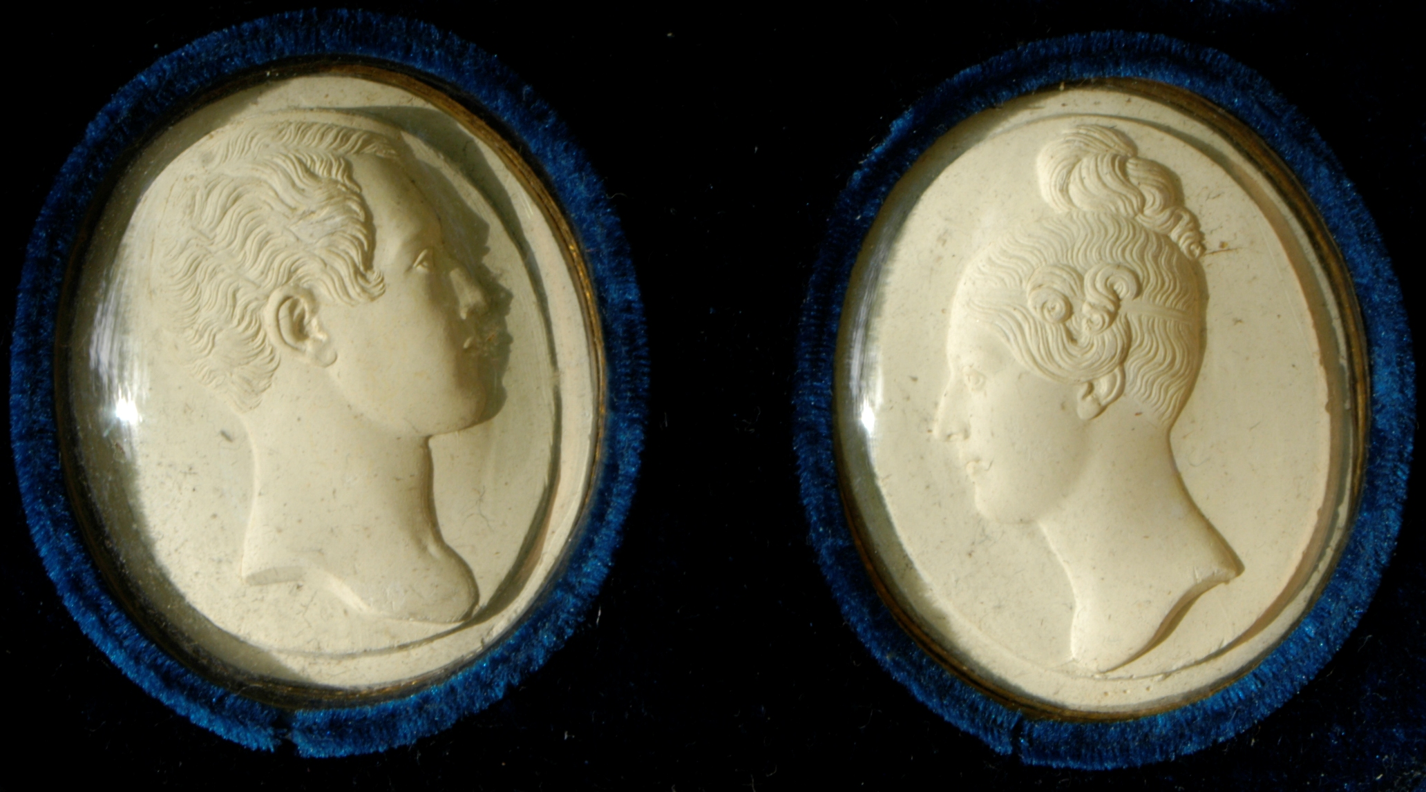 Photo (by me, R. de Salis, Rodolph (talk) 23:46, 13 August 2015 (UTC)) of plaster oval miniature reliefs of De Tabley and his wife Nina, circa 1833.